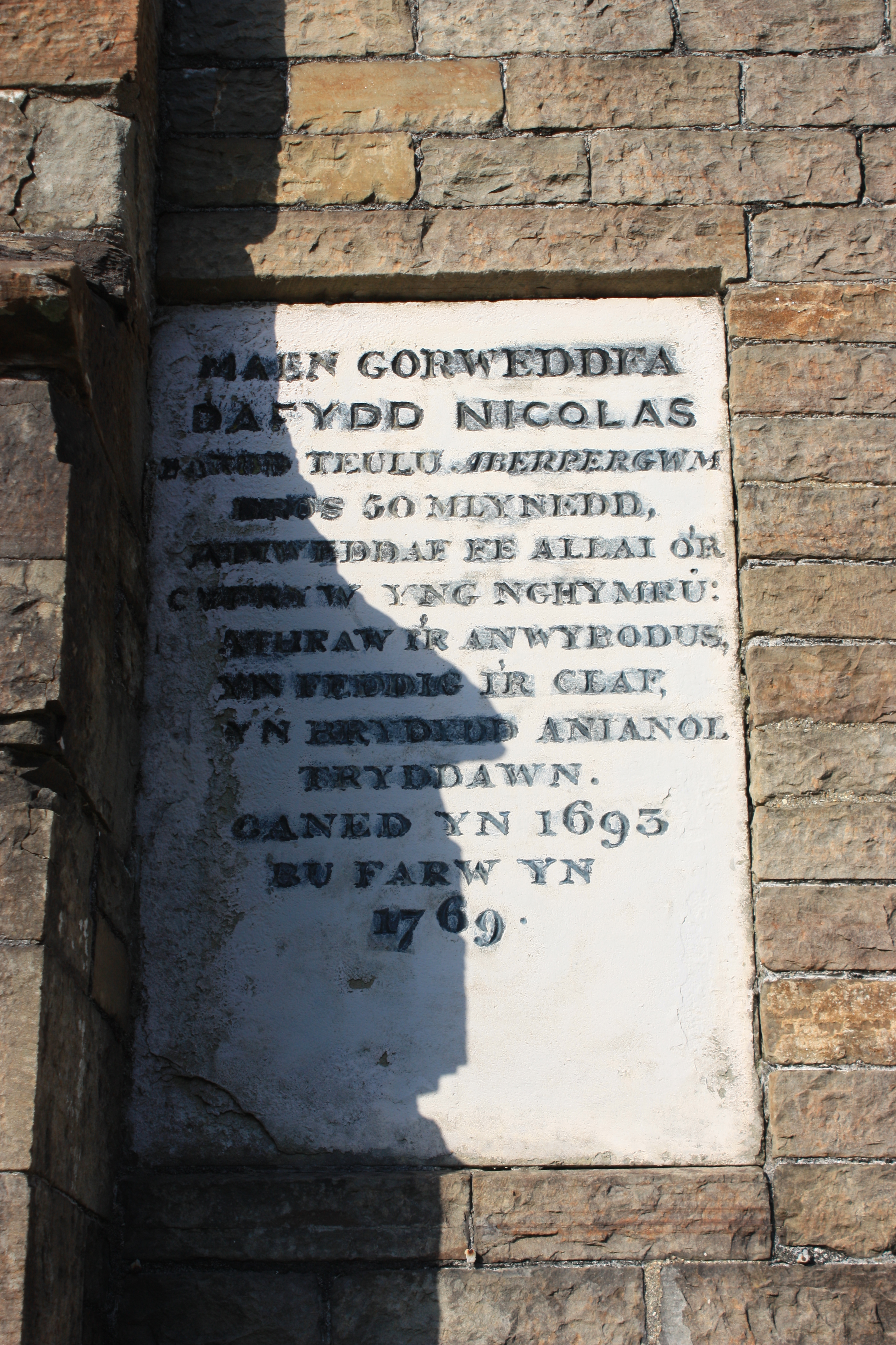 Memorial tablet to Dafydd Nicolas, St. Cadoc's Church, Aberpergwm, Glynneath, West Glamorgan, Wales, 2010.03.06